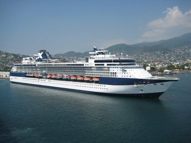 Celebrity Infinity as pictured from Carnival Spirit in Acapulco, Mexico.